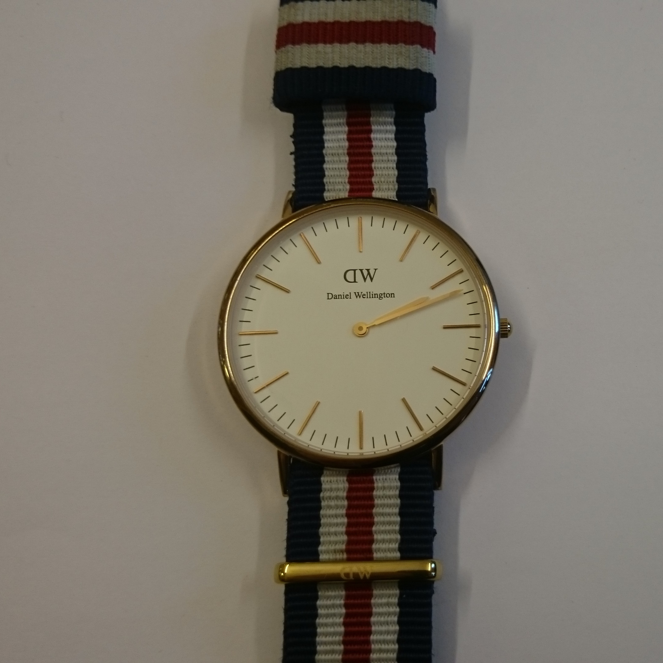 Daniel Wellington Classic with NATO strap